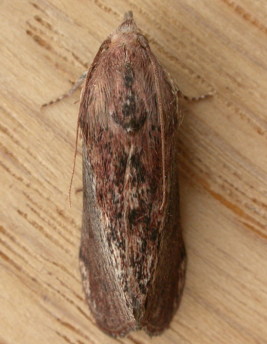 Galleria_mellonella